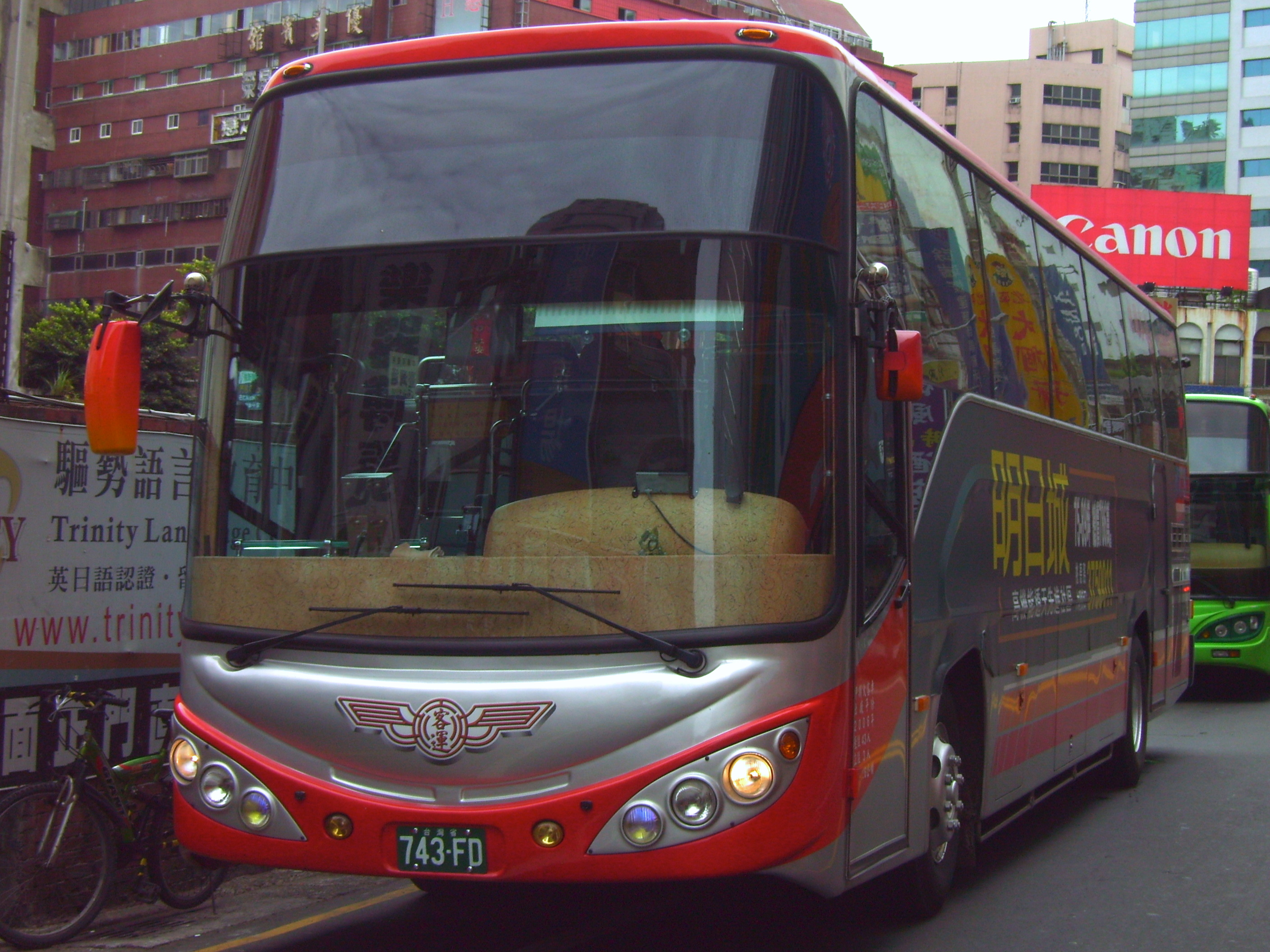 HINO ERK1JRL bus by Taoyuan City Bus.